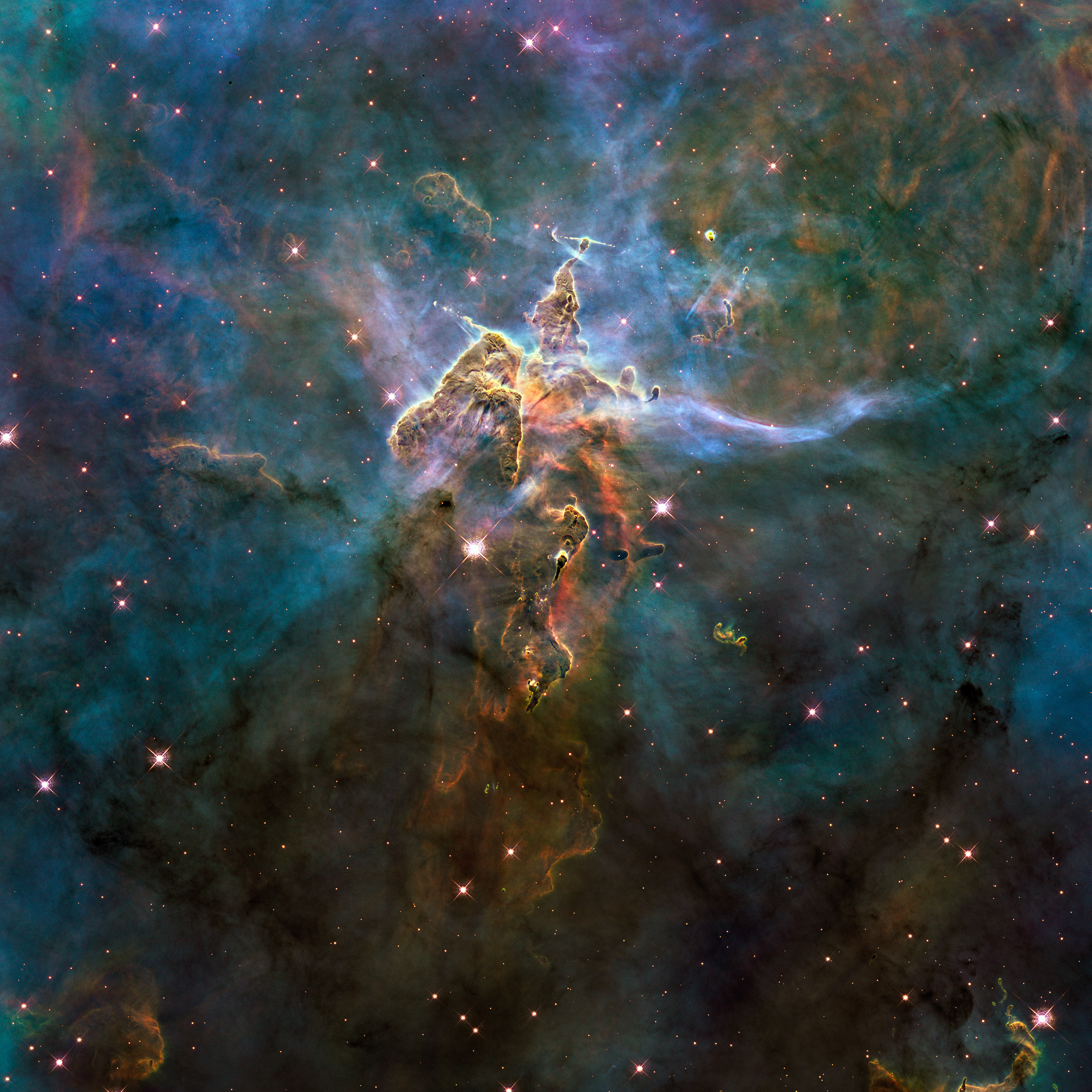 To commemorate Hubble Telescope's 20th Birthday, NASA, along with ESA and M. Livio and the Hubble 20th Anniversary Team (STScI), released several of Hubble's findings.